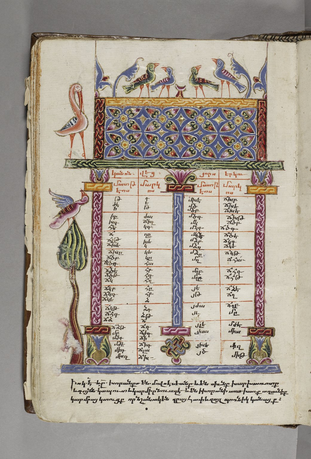 Illuminated page, Eusebian canons. From Illuminated Armenian Gospels with Eusebian canons. Shelfmark MS. Arm. d.13.